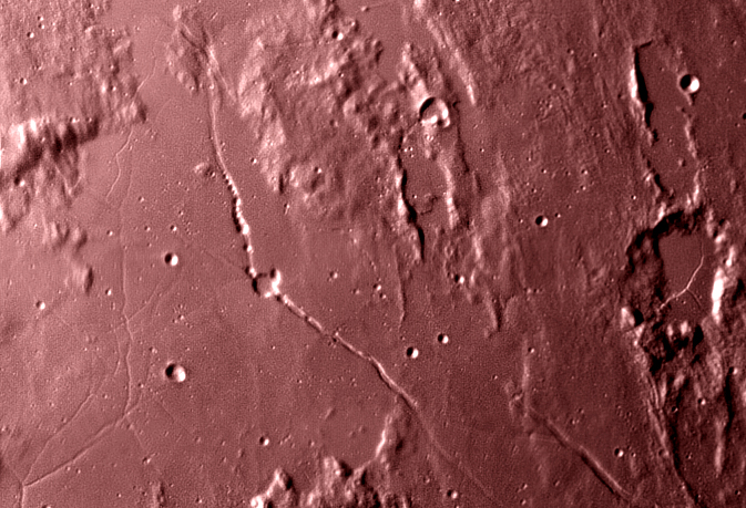 Rima Hyginus, on the Moon. Infrared image in L band centred on 3.75 micrometres. Taken with the SIRCA camera by M. Gålfalk, G. Olofsson, and H.-G. Florén. Nordic Optical Telescope, Stockholm Observatory. More images can be found here.